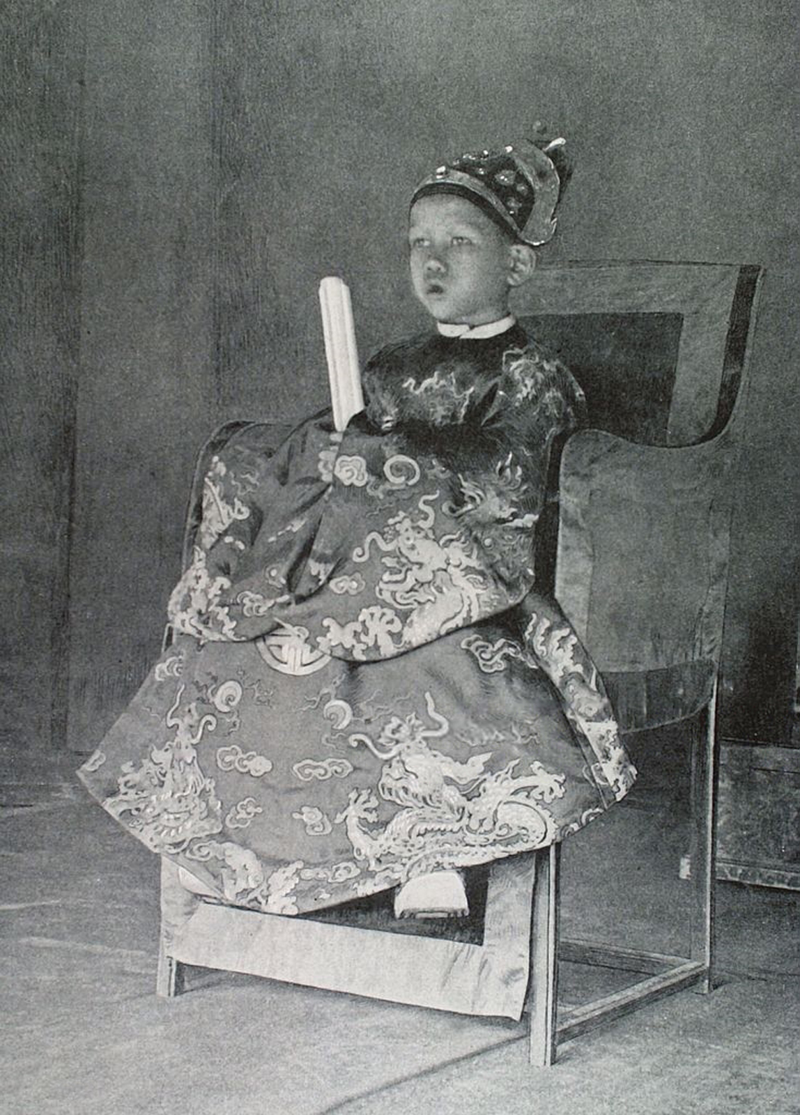 Emperor Duy Tân